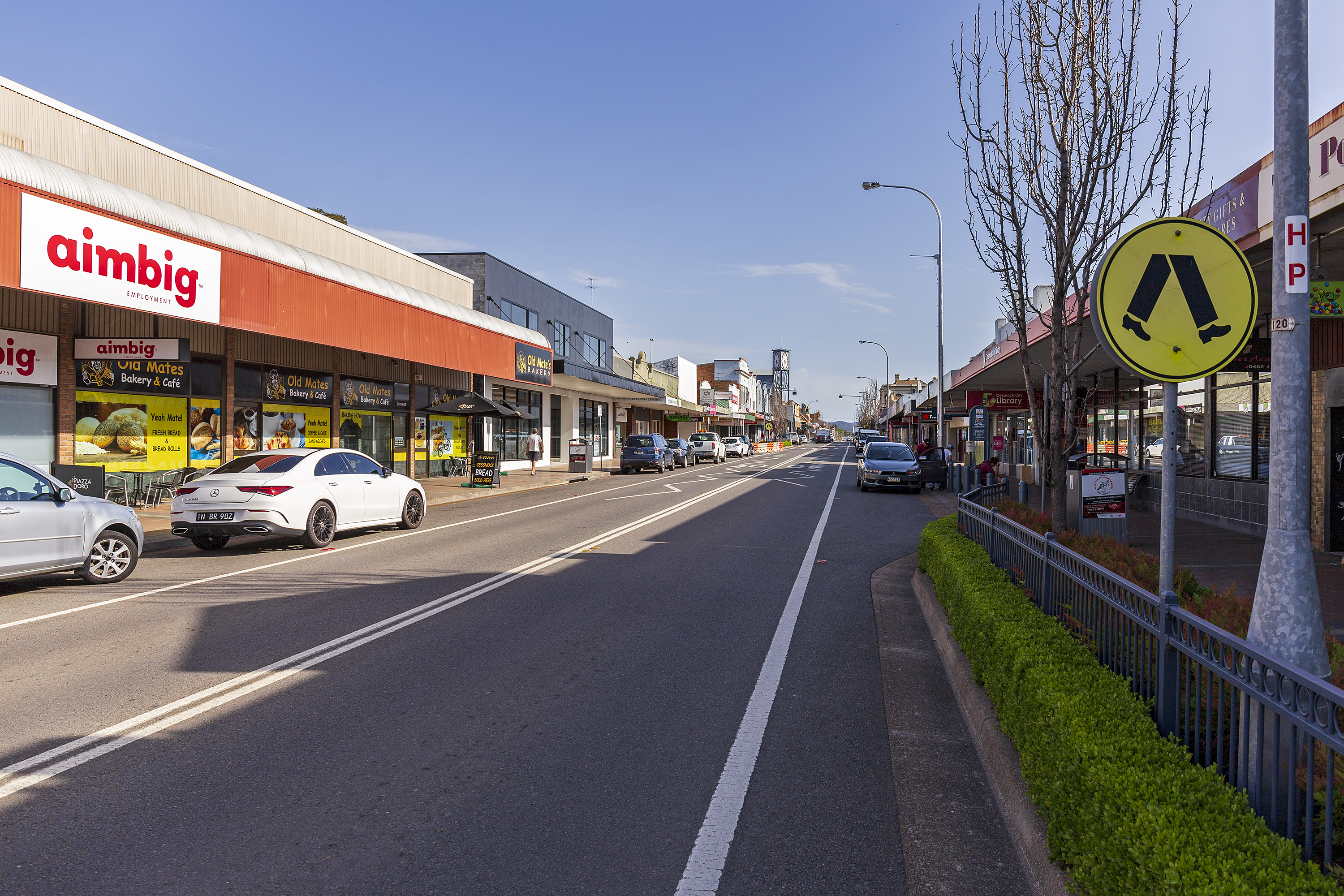 Vincent Street in Cessnock